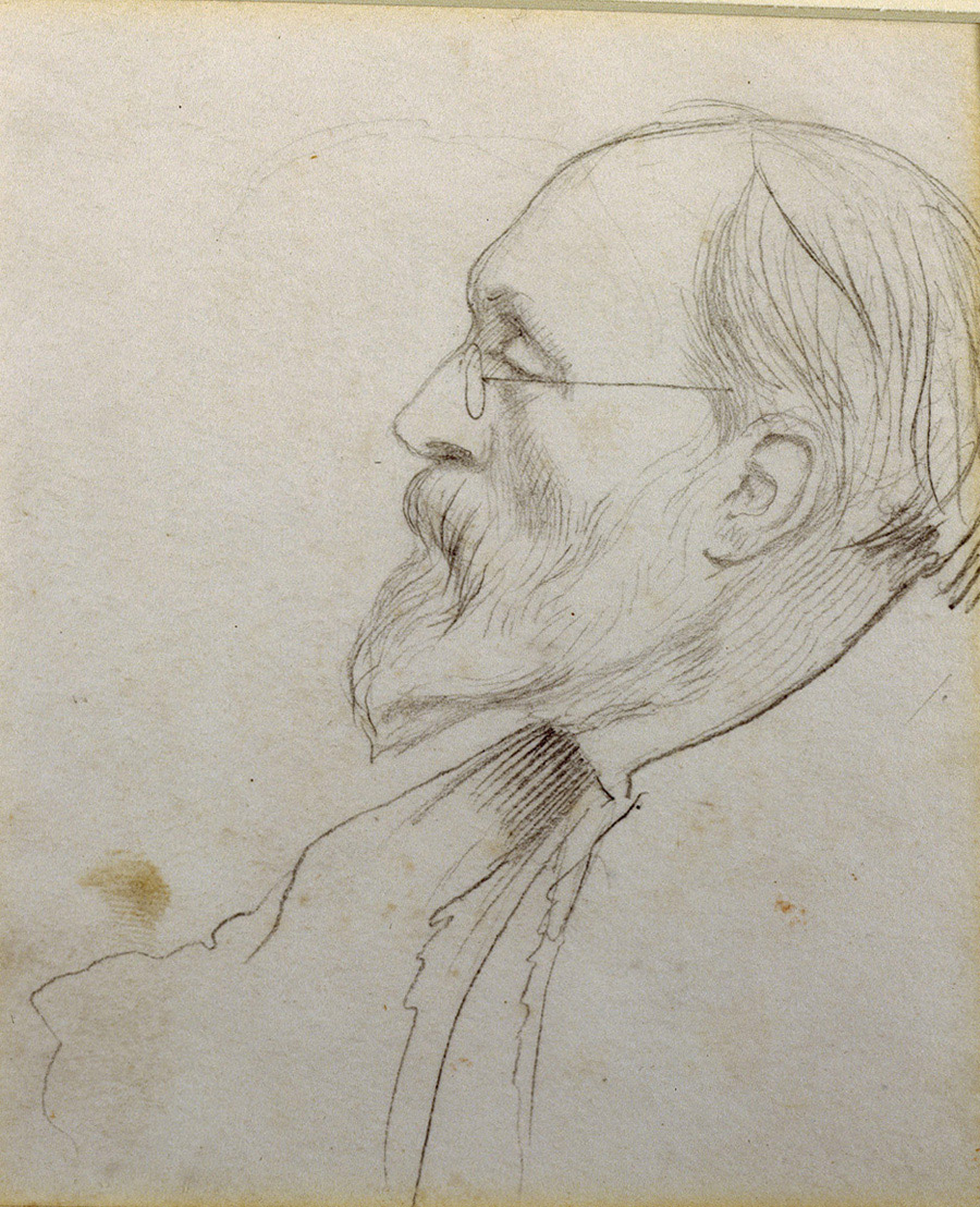 Edward Burne-Jones, c. 1885-90 (artist) George James Howard, Earl of Carlisle (1843-1911) (subject) Pencil on wove paper 7 1/4 x 6 1/8 inches Acquisition Fund, 1988 DAM 1988-90 Burne-Jones died in 1898 (Inventory)Delaware Art Museum Native nameDelaware Art MuseumLocationWilmington, DelawareCoordinates39° 45′ 58″ N, 75° 33′ 53″ W Established1912Website control VIAF: 279206949 SUDOC: 091566312 BNF: 16740302j